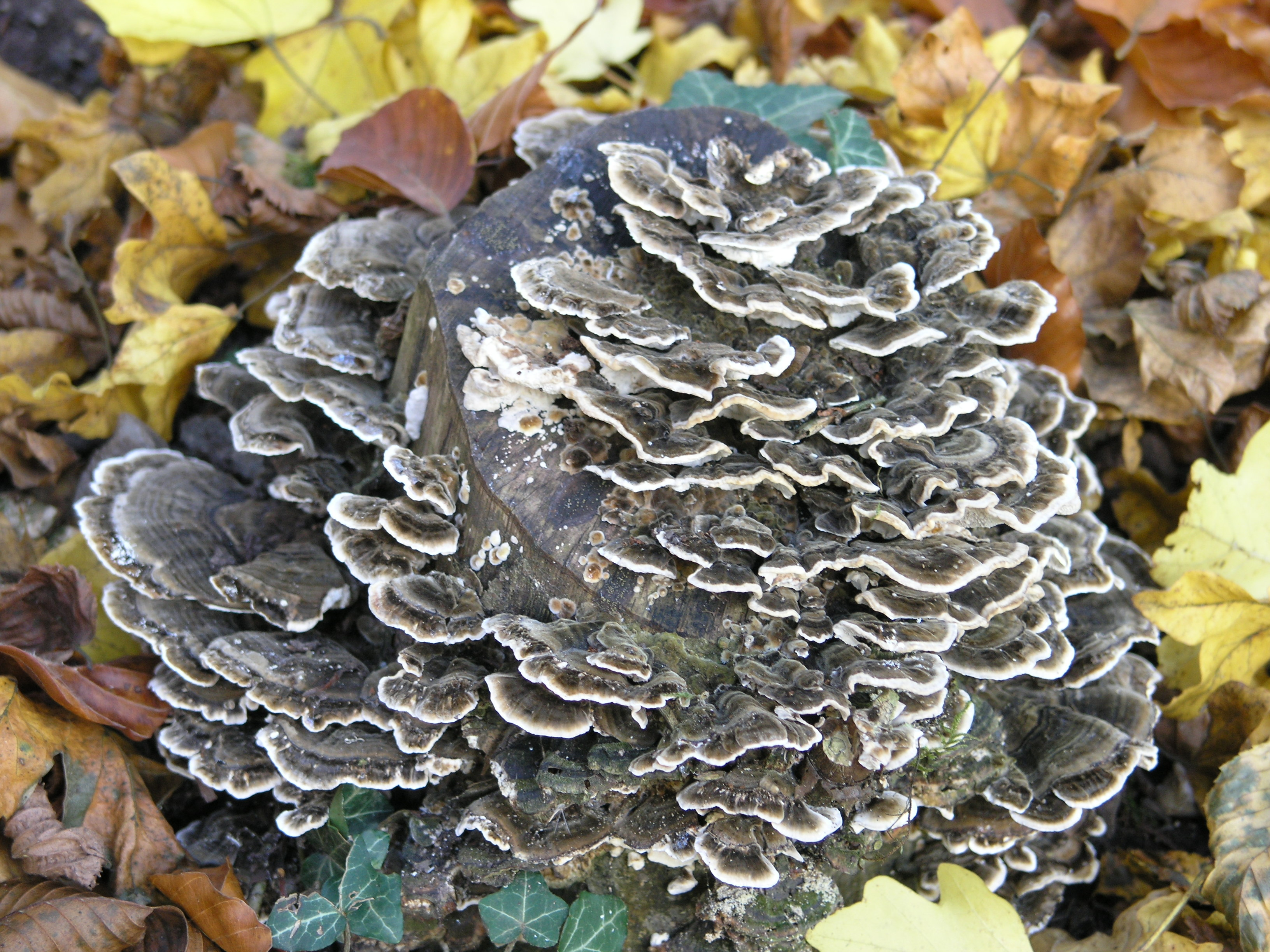 Trametes versicolor